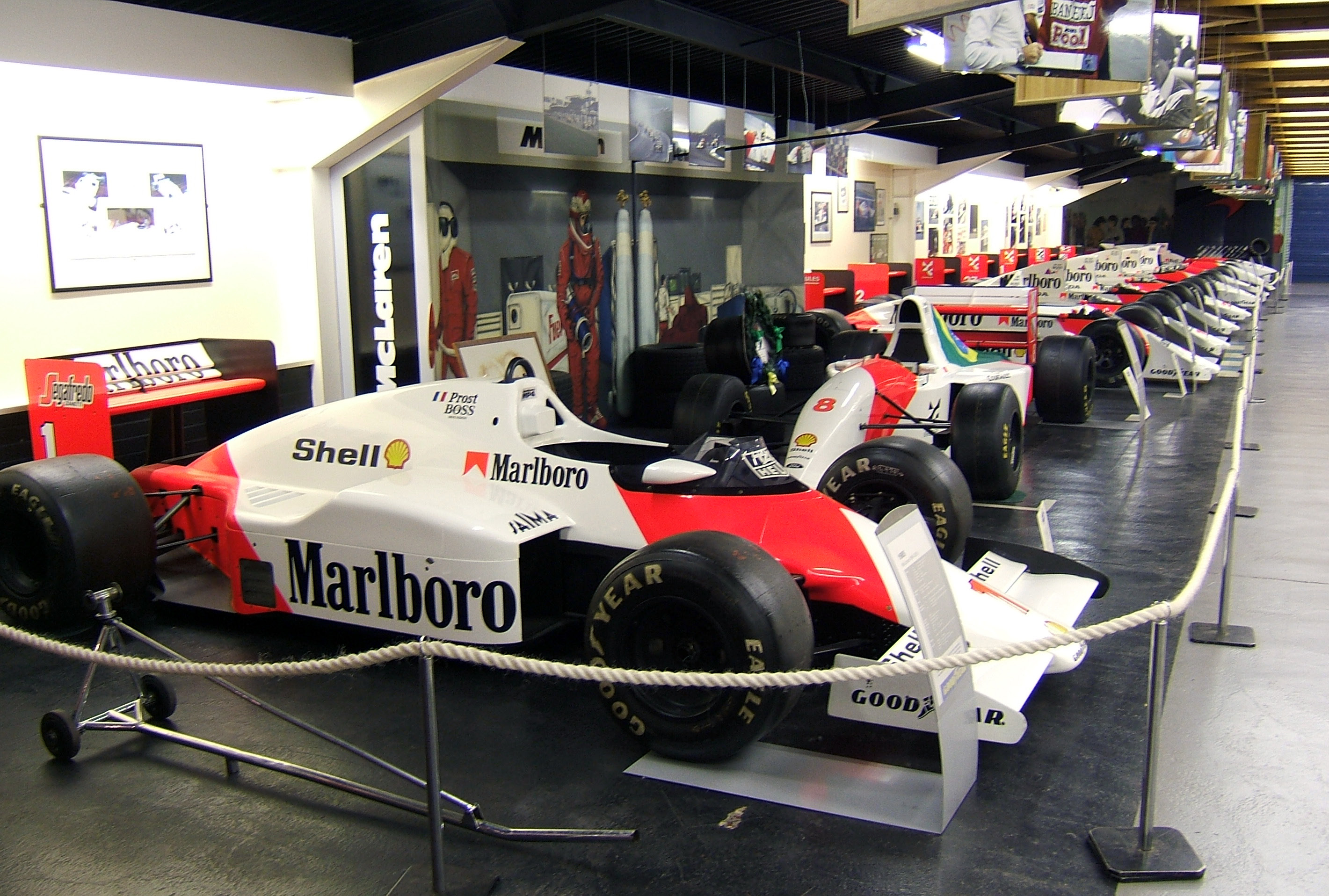 Approximately half of the Donington Grand Prix Collection's McLaren collection. Ranging from the MP4/2B (but 1986 livery) nearest the camera, to the final Marlboro "red and white" car at the far end.